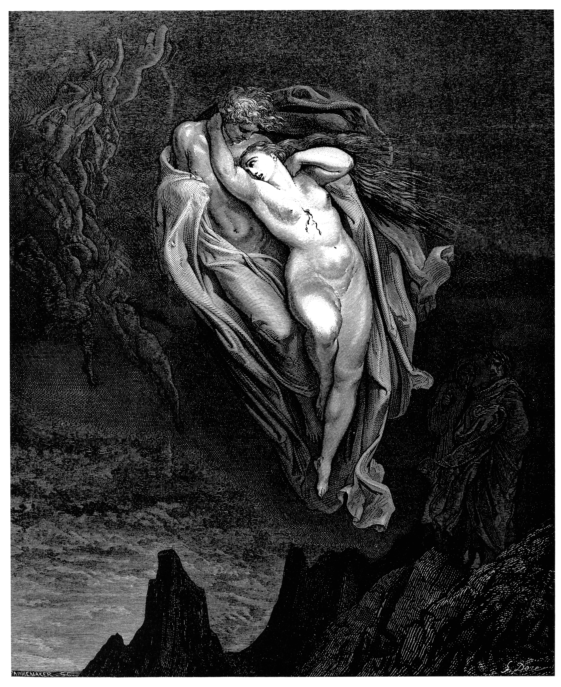 Gustave Doré's illustration to Dante's Inferno. Plate XV: Canto V: Dante is interested in why two souls within the hurricane are treated much more gently than all others. "O Poet, willingly, / Speak would I to those two, who go together, / And seem upon the wind so light." (Longfellow translation)